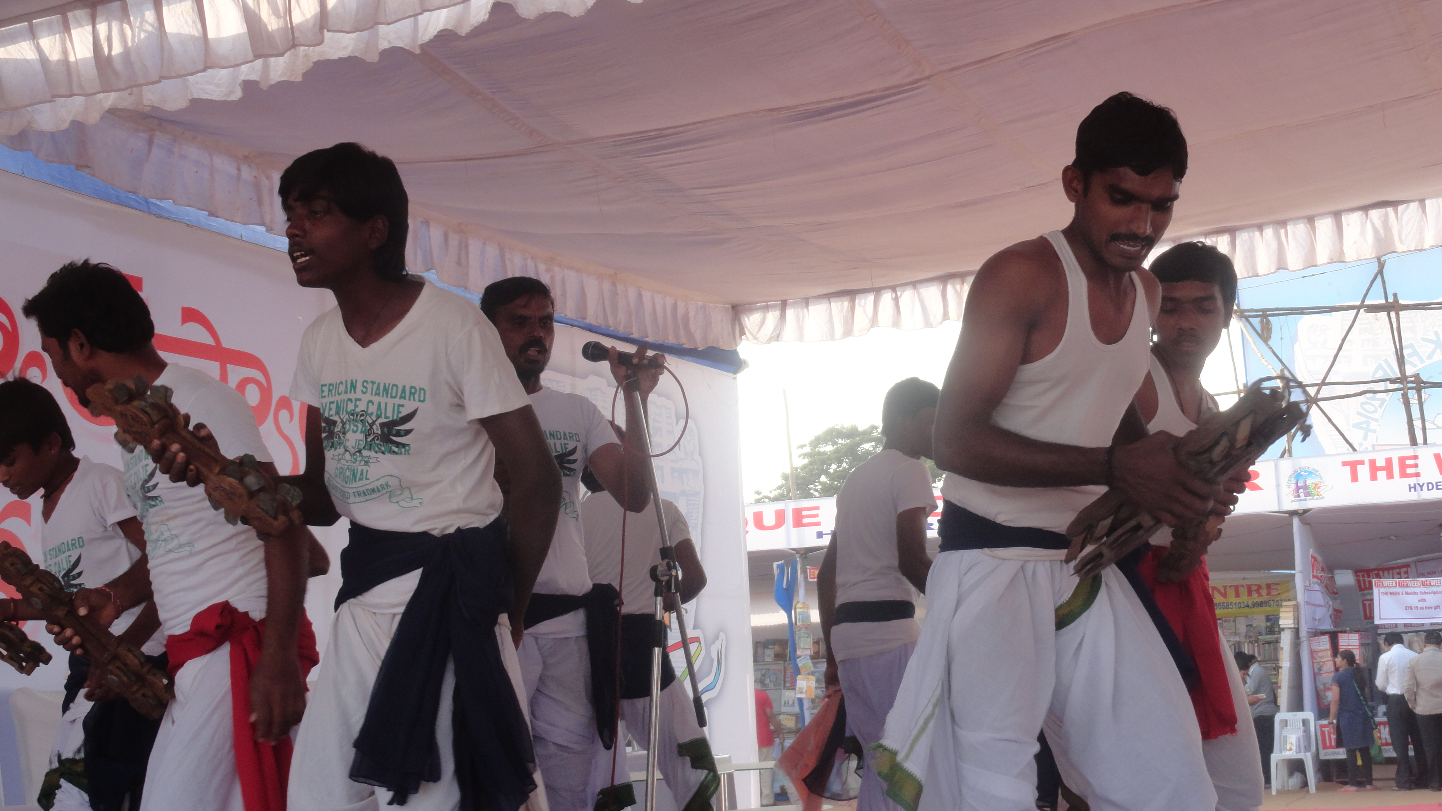 Devotional dance at HYD book fair